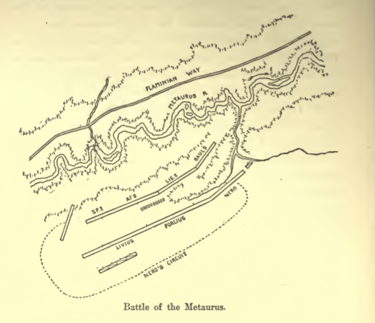 Depiction of the Battle of the Metaurus, 207.